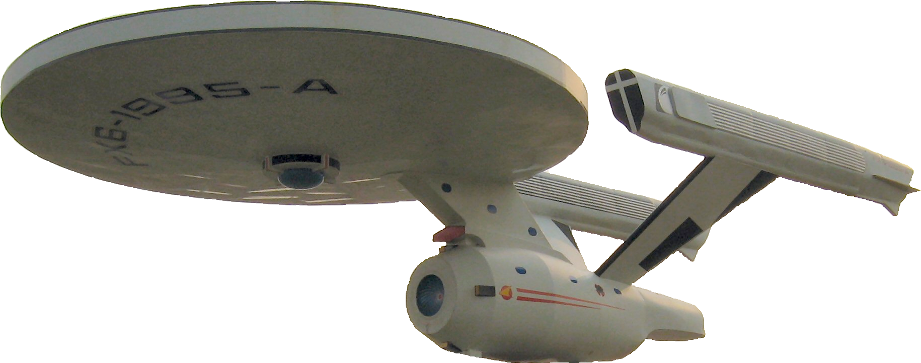 Copy of USS Enterprise NCC-1701-A from Star Trek movies